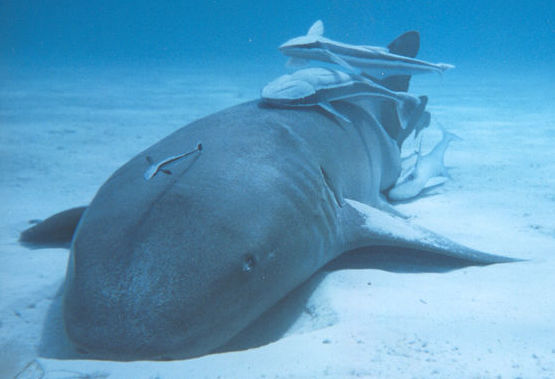 Nurse shark Ginglymostoma cirratum with remoras Remora sp. Bimini, The Bahamas.